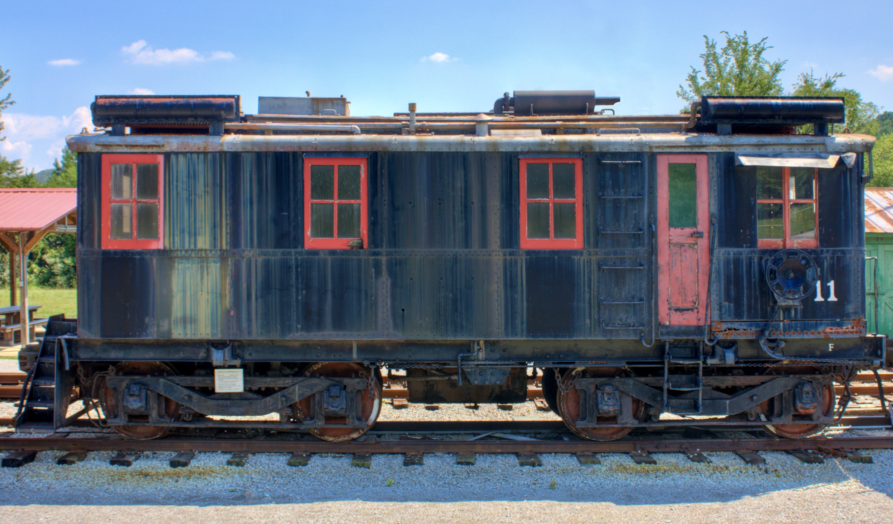 Union Carbide #3/11 Alco/GE/Ingersoll boxcab now at the North Alabama Railroad Museum.